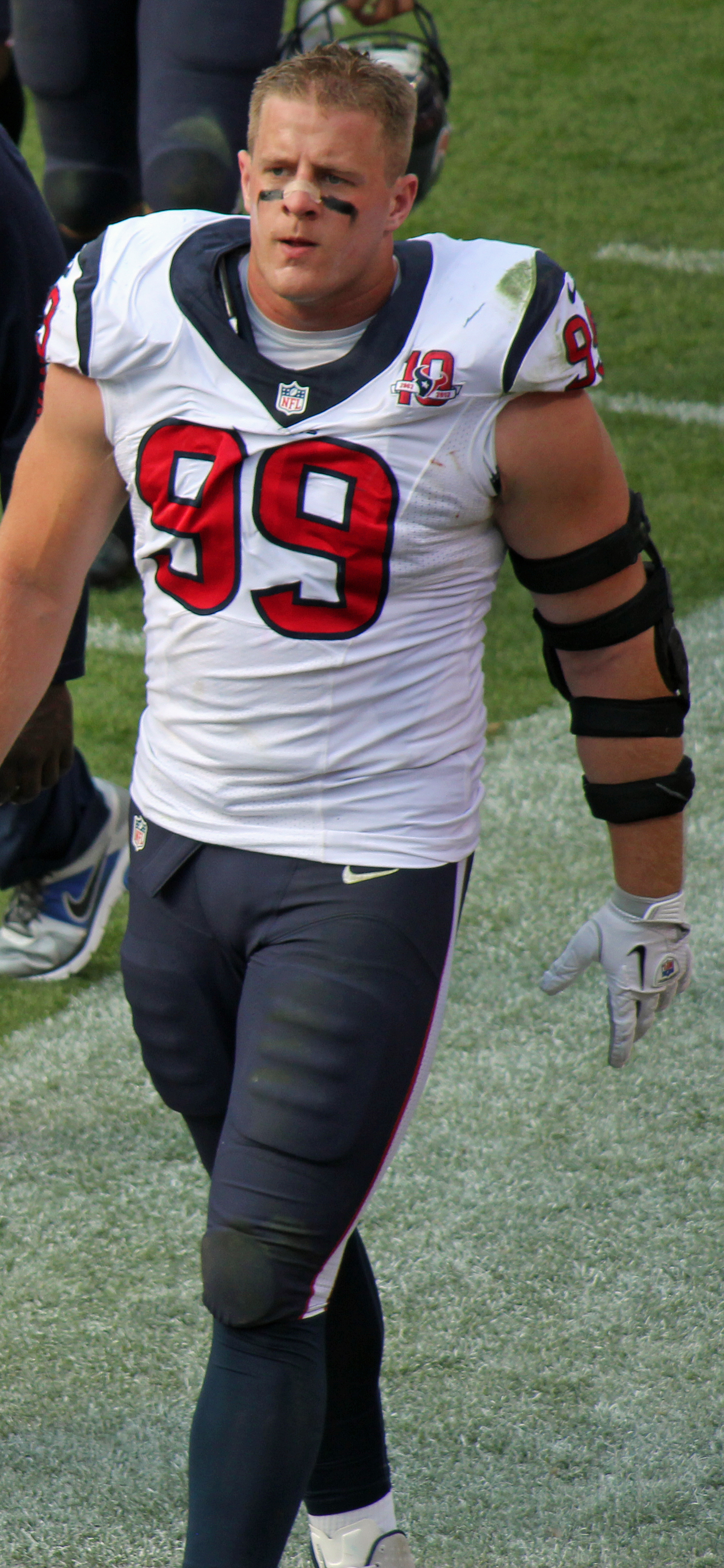 J. J. Watt, a player on the National Football League.